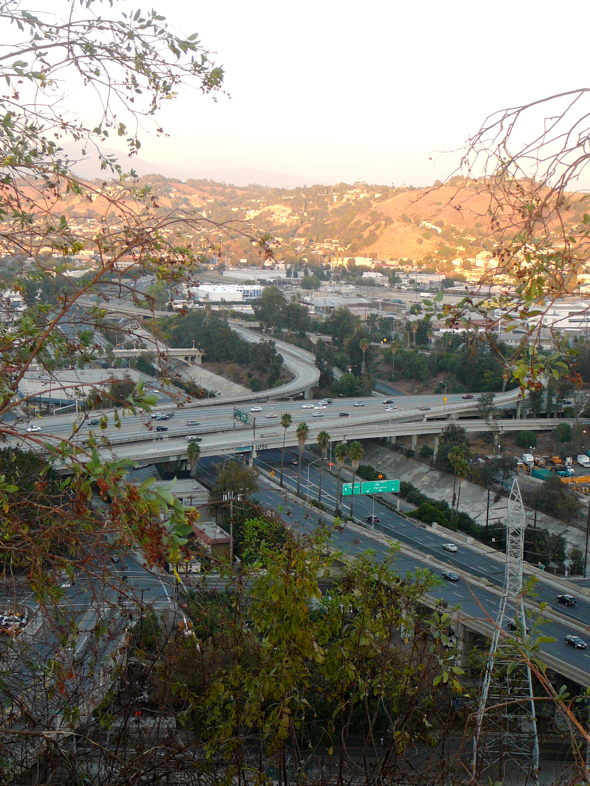 Photos from an evening ride through Elysian Park from Broadway to Sunset.